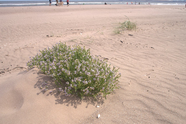 Sea Rocket (Cakile maritima), Tentsmuir Sands An early colonist of mobile foredunes.